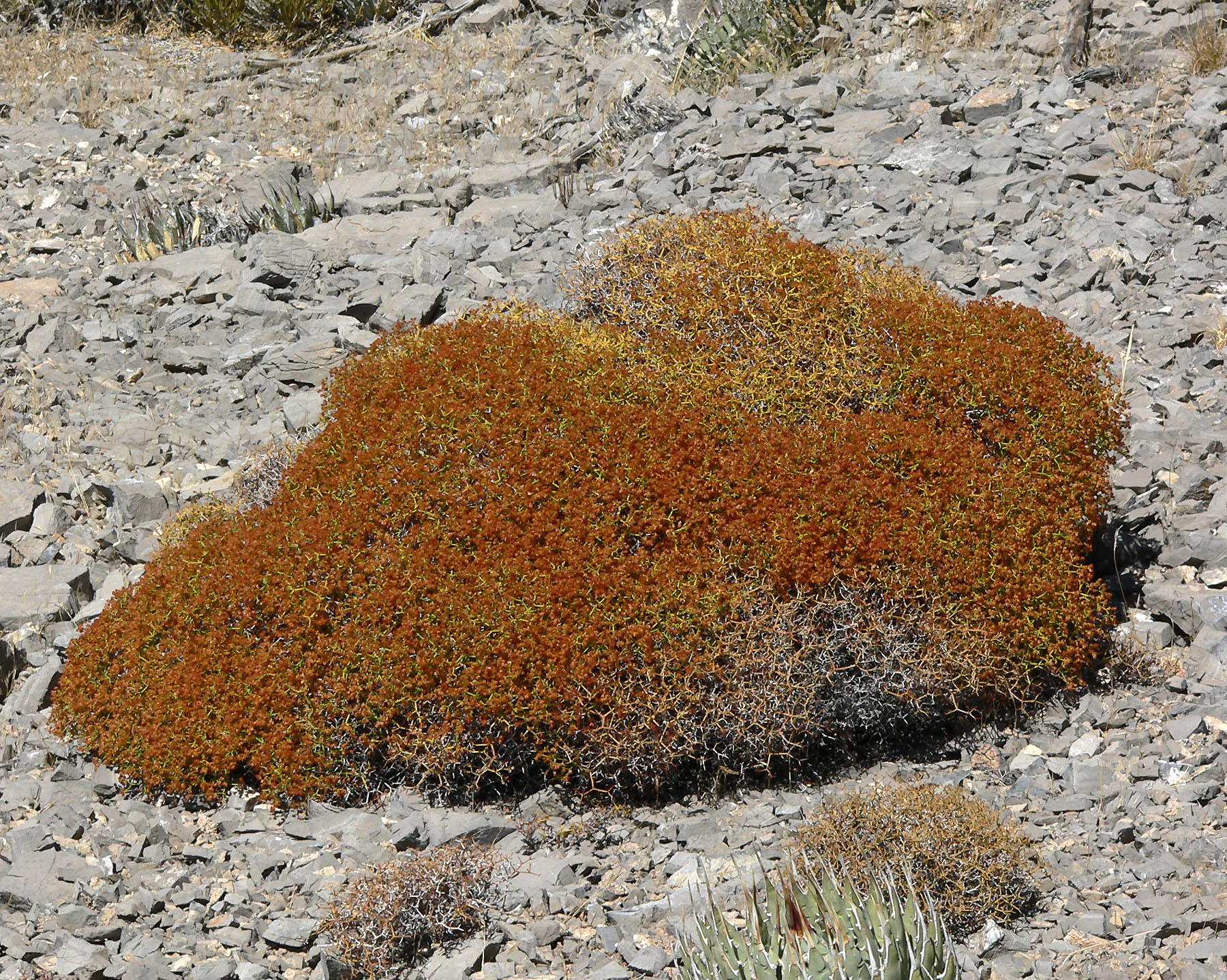 Eriogonum heermannii var. sulcatum on the escarpment above Red Rock Canyon, northwest of Mountain Springs, Spring Mountains, southern Nevada (elev. about 1900 m)